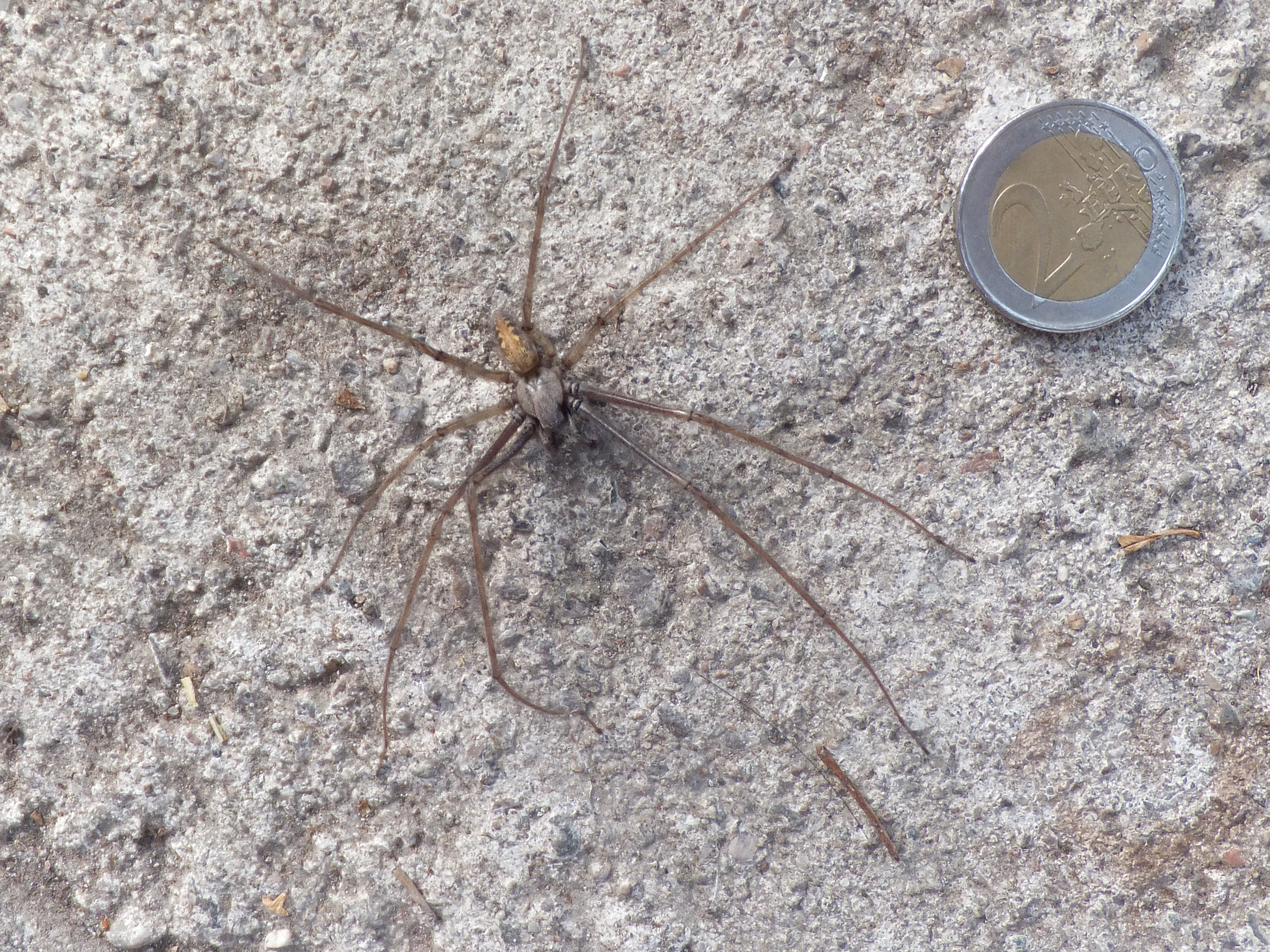 Male spider of species Tegenaria parietina